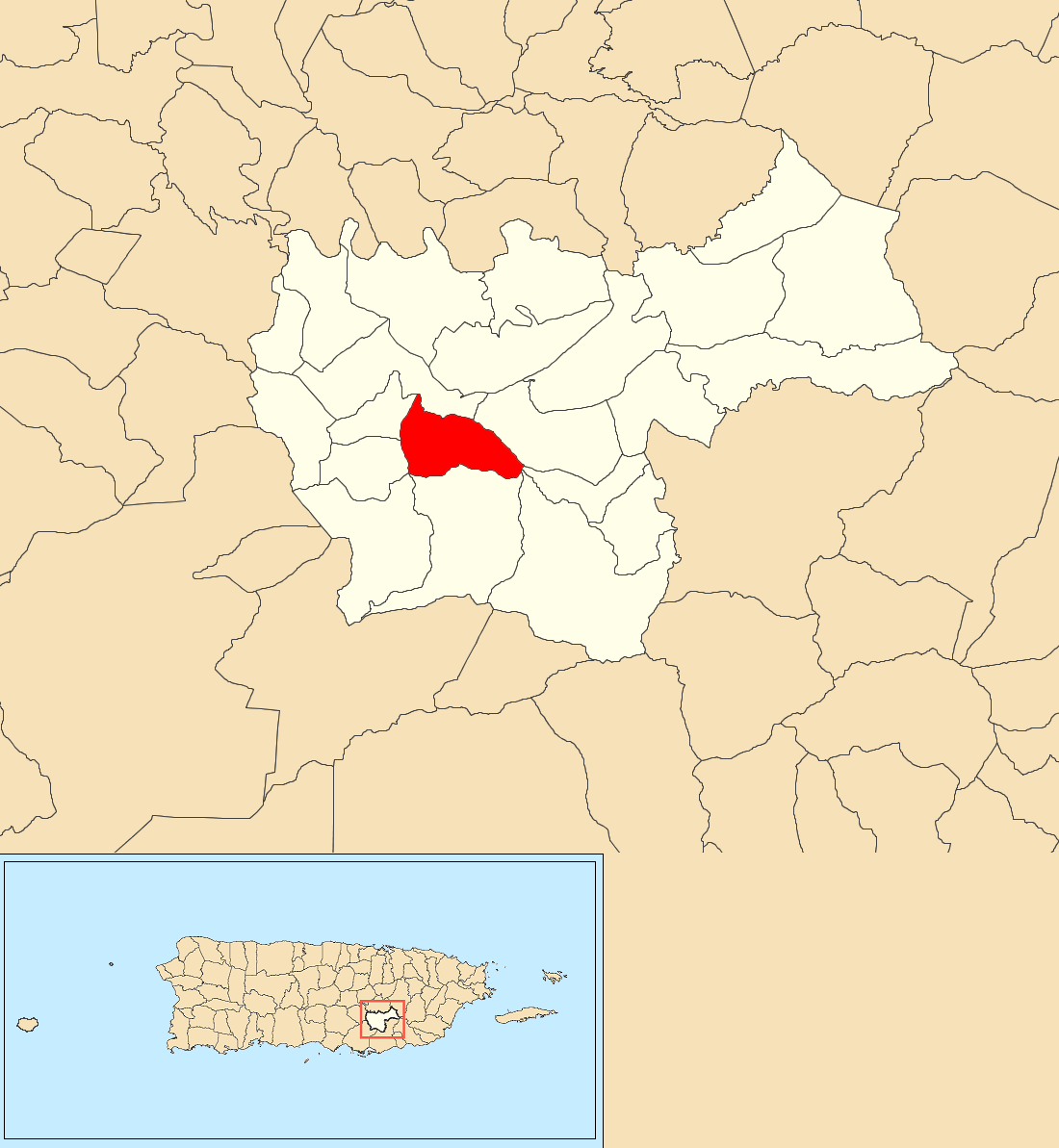 Sumido, Cayey, Puerto Rico locator map